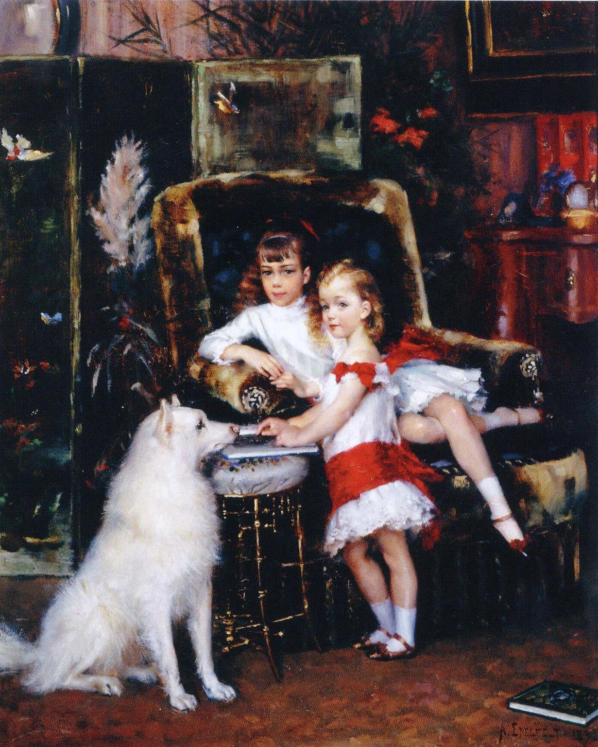 Children of Emperor Alexander III, Grand Duke Michael Alexandrovich Romanov and Grand Duchess Xenia Alexandrovna Romanova, portrayed in the Gatchina Palace. Portrait belongs to private collection.